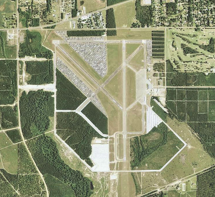 USGS digital orthophoto of Beauregard Regional Airport in Louisiana